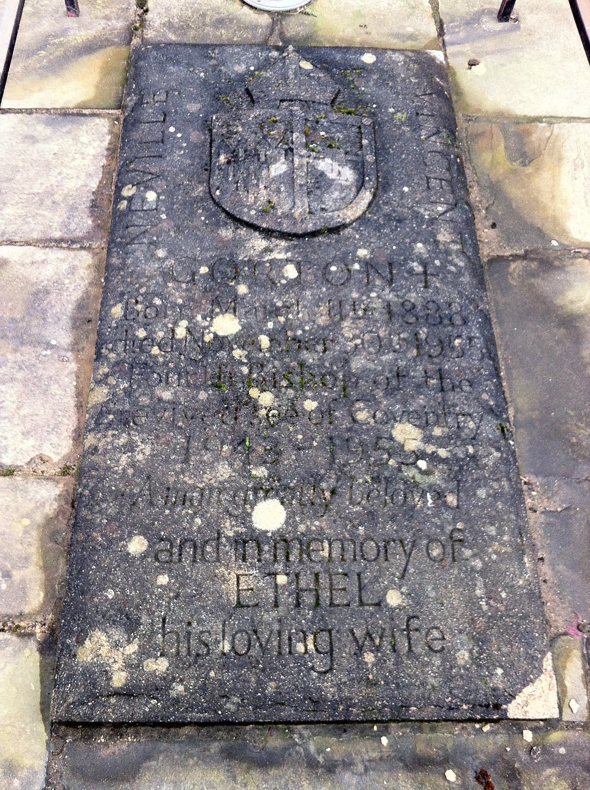 Monument to Neville Gorton, fourth Bishop of Coventry, and his wife Ethel, in the ruin of Coventry Cathedral